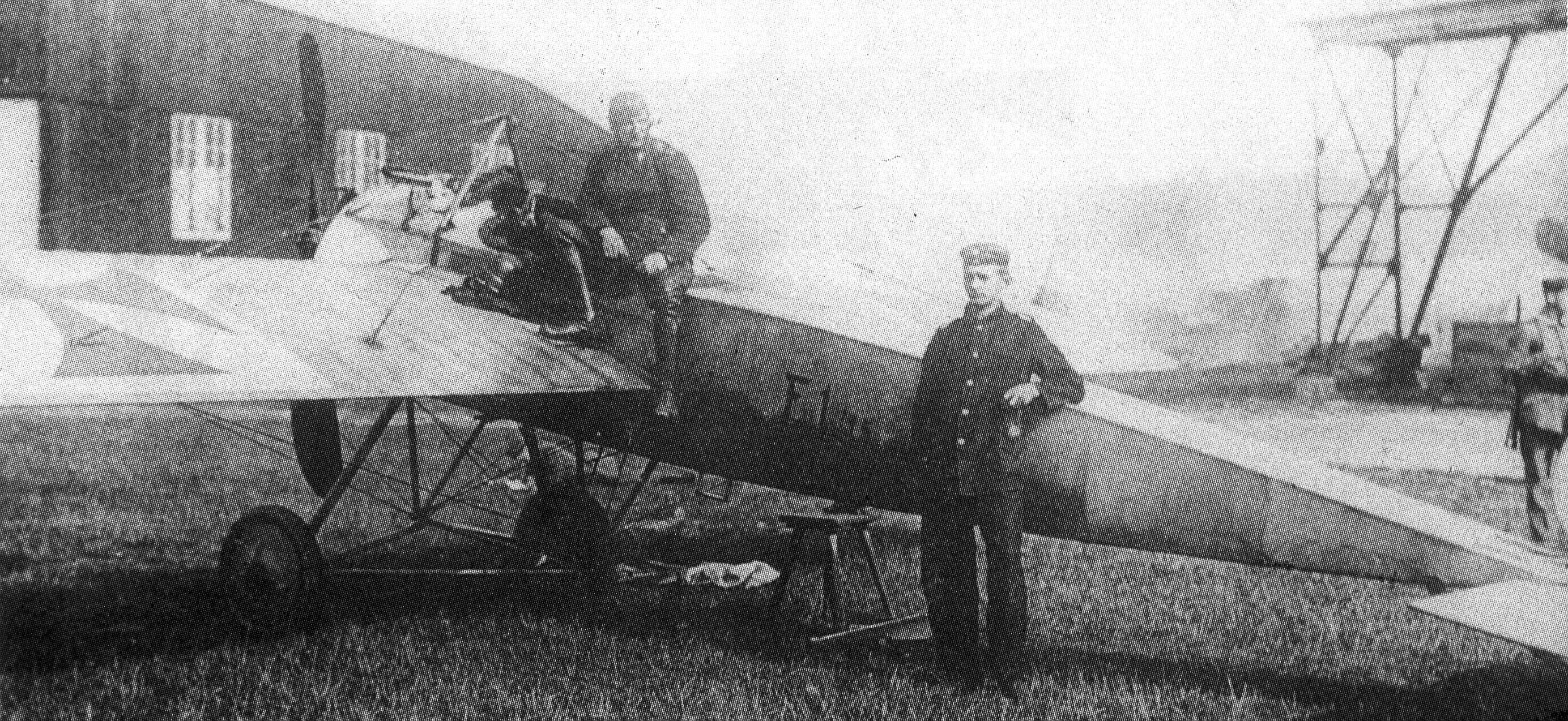 Otto Parschau's Fokker M.5K/MG Eindecker prototype, E.1/15, the very first Fokker Eindecker ever produced, with lowered wing position modification